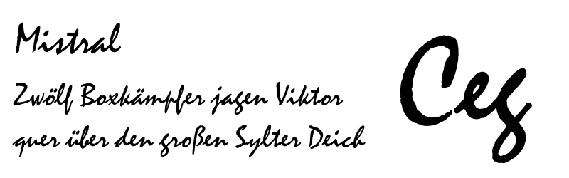 german pangram in typeface Mistral